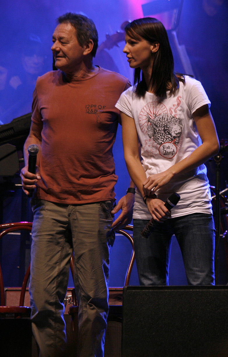 Wolfgang Ambros and Christina Stürmer; charity concert 'atemberaubend 08' in support of researching pulmonary hypertension (lungenhochdruck.at) at the Wiener Stadthalle.